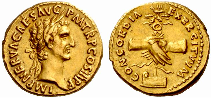 ROMAN EMPIRE. Nerva (AD 96–98). AV aureus (7.40 gm). Rome, AD 97. IMPerator NERVA CAESar AVGustus Pontifex Maximus TRibunus Plebis COnSul III Pater Patriae, laureate head of Nerva right / CONCORDIA EXERCITVVM, clasped right hands holding aquila set on prow. BMCRE 27. RIC 15. CBN 16.